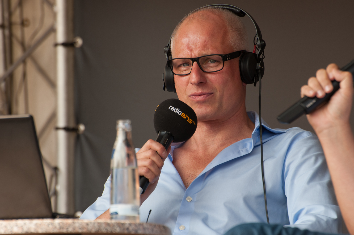 Volker Wieprecht, German Radio journalist, Author